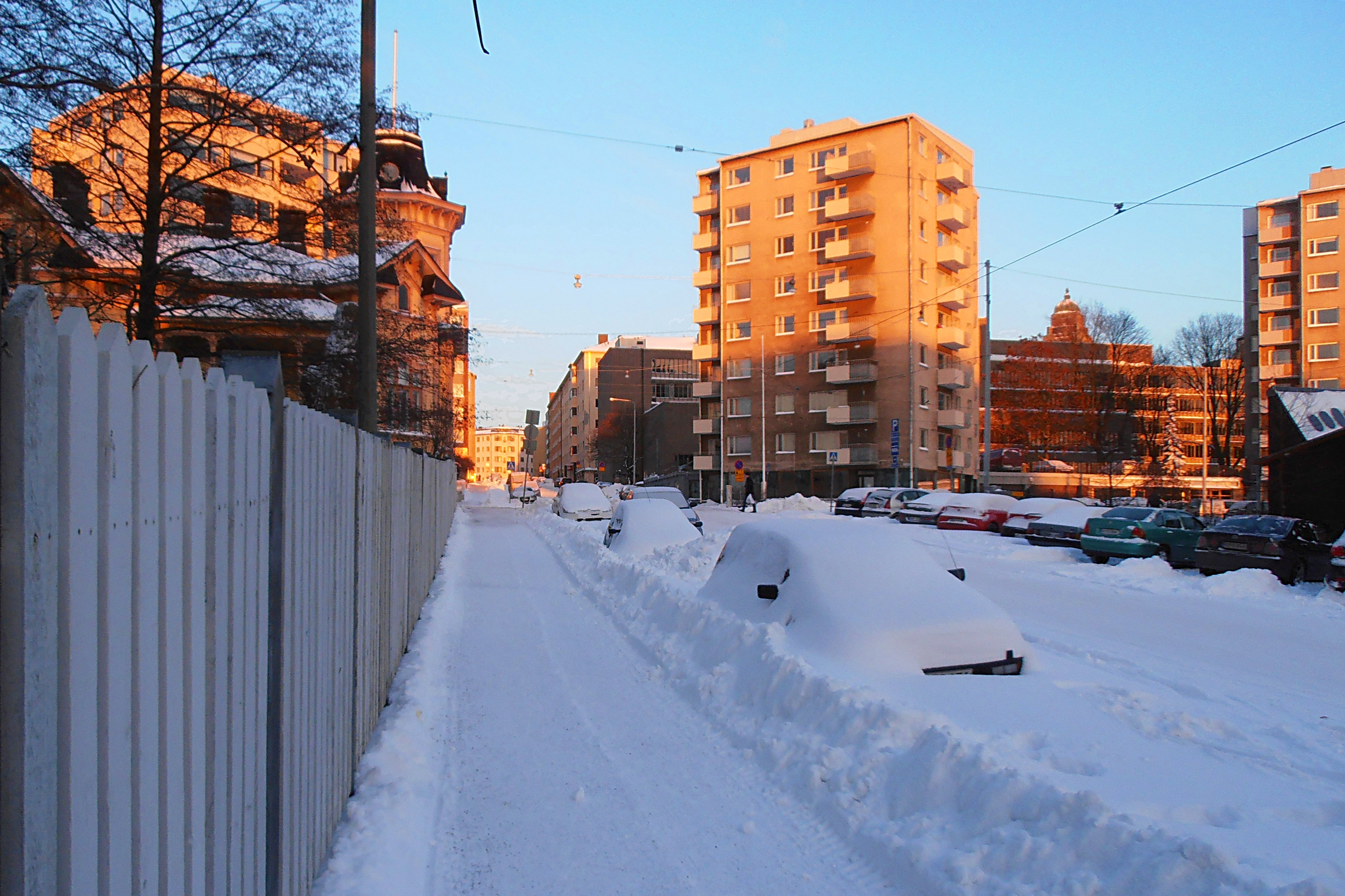 The street Castréninkatu, Kallio, Helsinki, Finland. As seen from the back of the Helsinki City Theater. Early winter. Exceptionally snowy conditions.